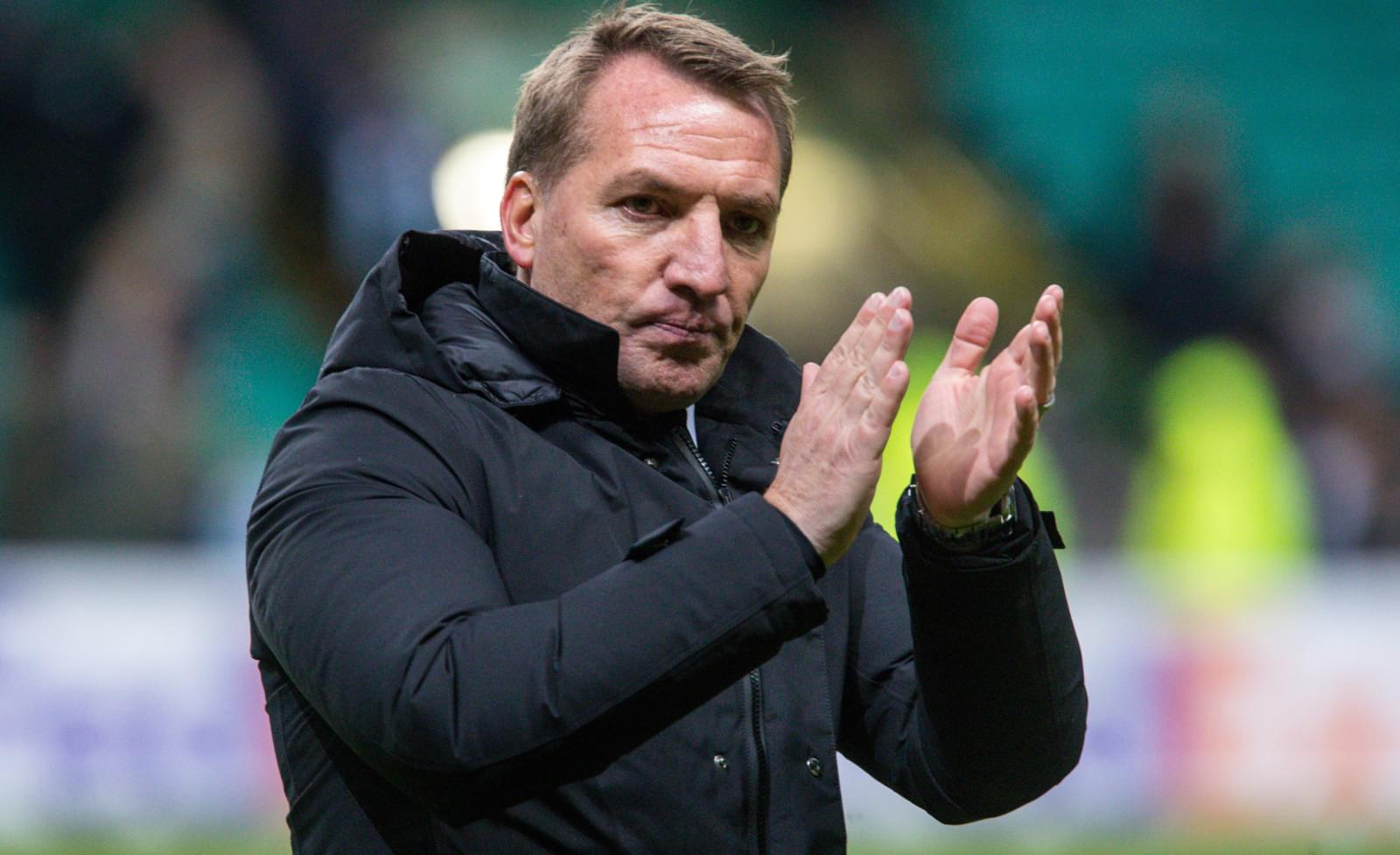 16.02.2018. Великобритания, Глазго, «Селтик Парк». Лига Европы УЕФА 2017/18, «Селтик» — «Зенит».